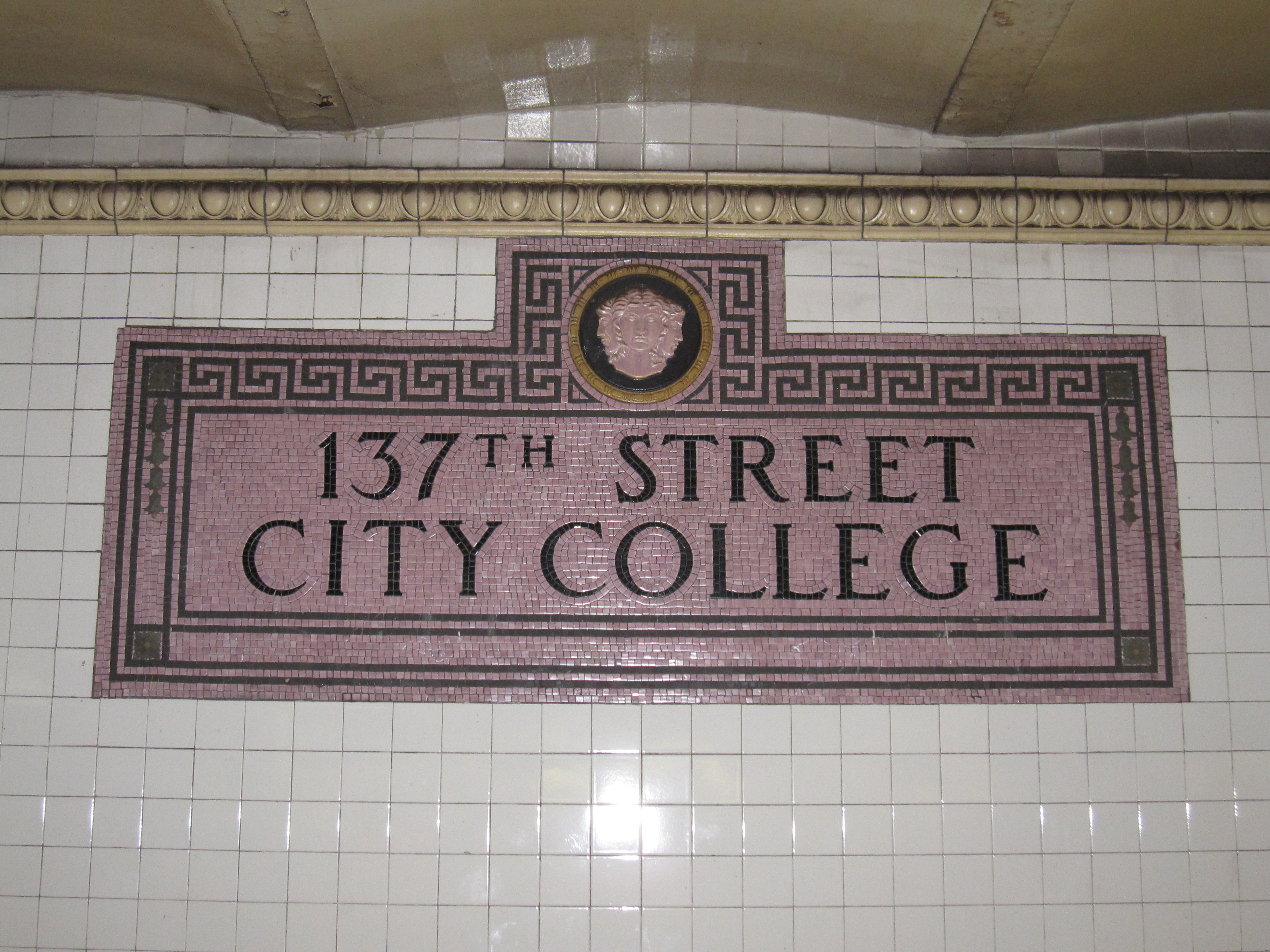 137th Street – City College (IRT Broadway – Seventh Avenue Line)